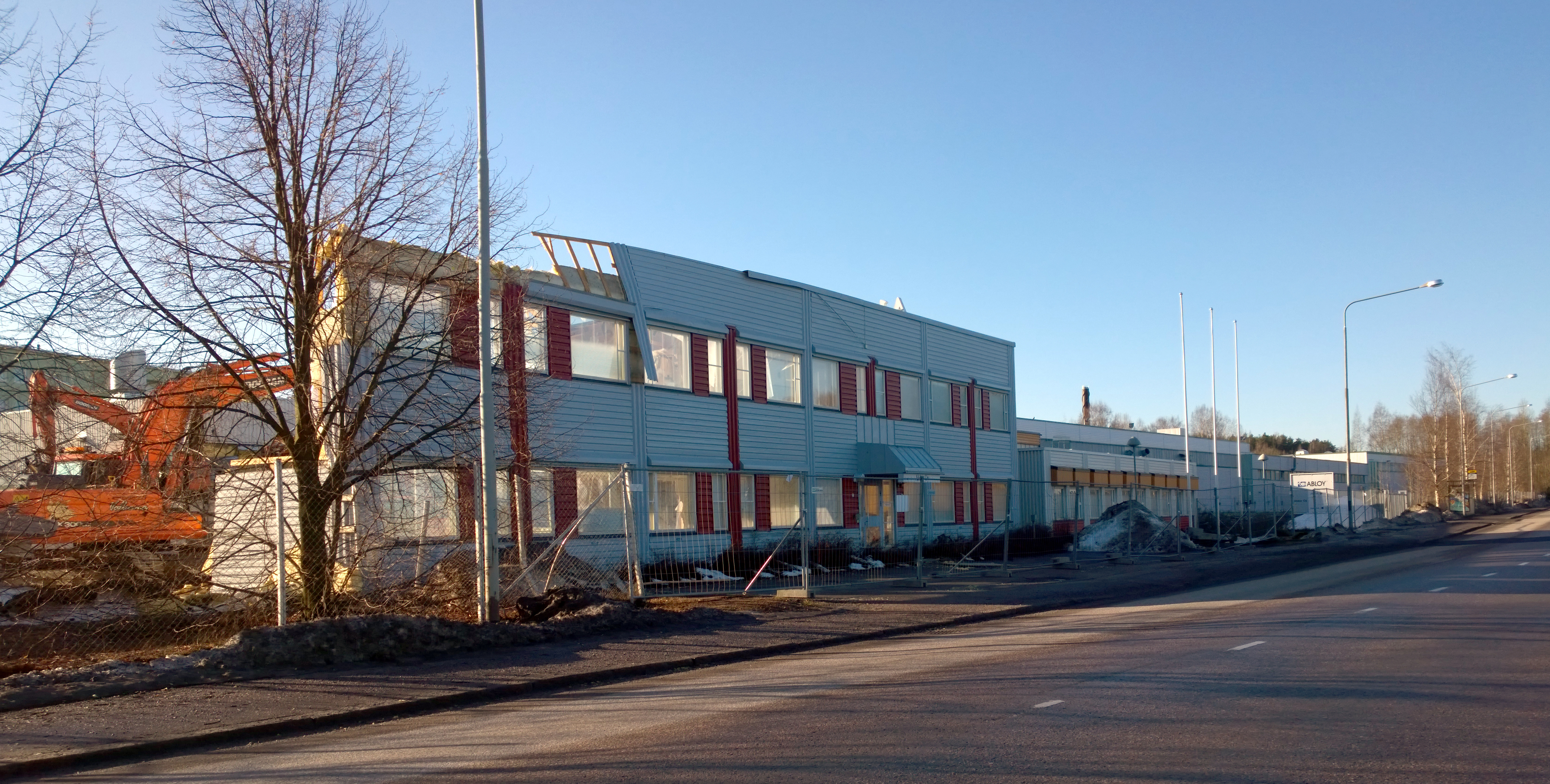 Demolition in progress of Abloy's former factory in Tampere. Epilänharju district.